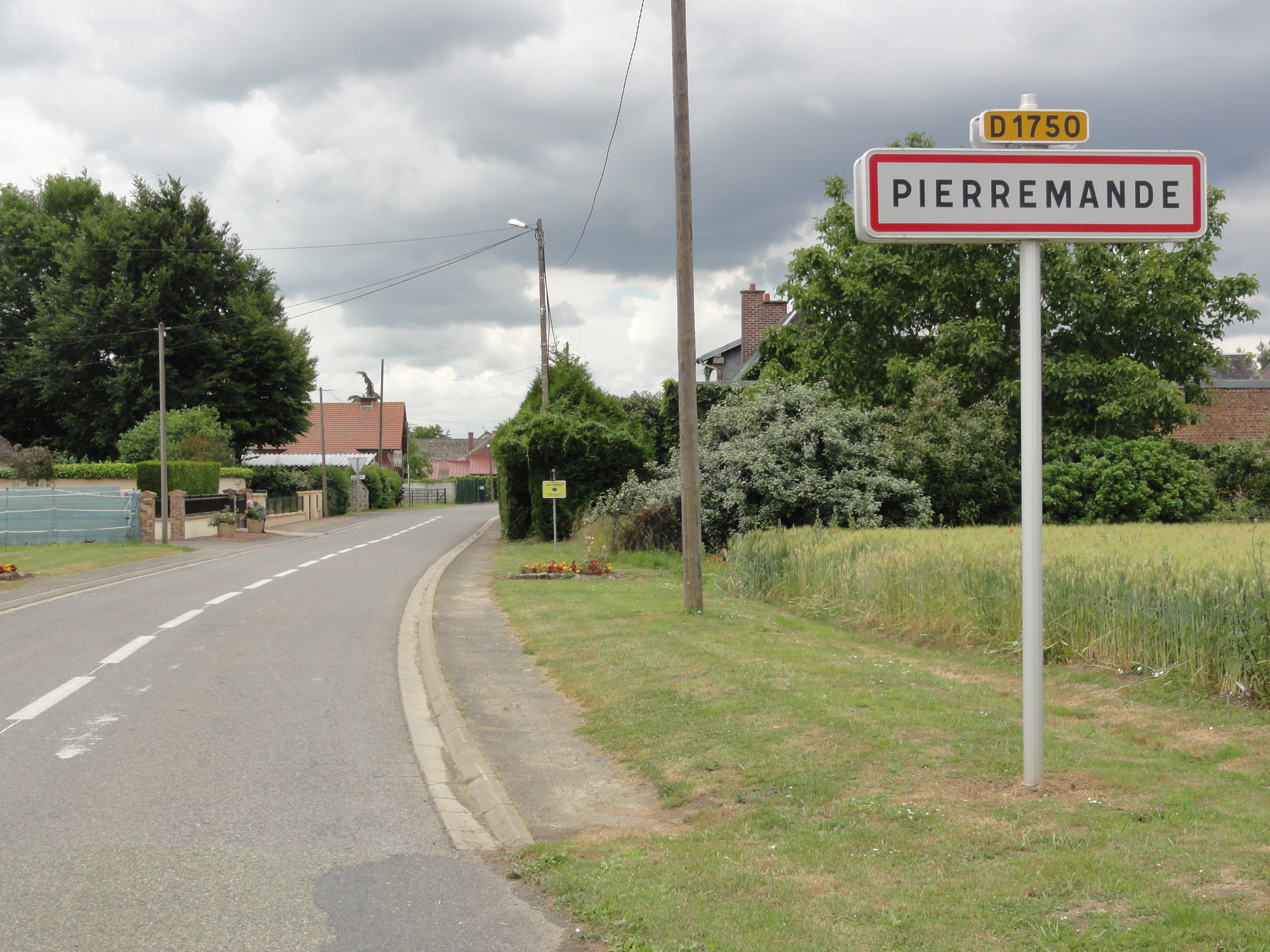 Pierremande (Aisne) city limit sign